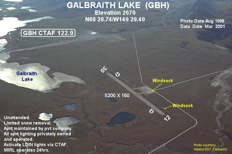 Annotated aerial photograph of Galbraith Lake Airport (FAA: GBH) at Galbraith Lake in Alaska, United States.